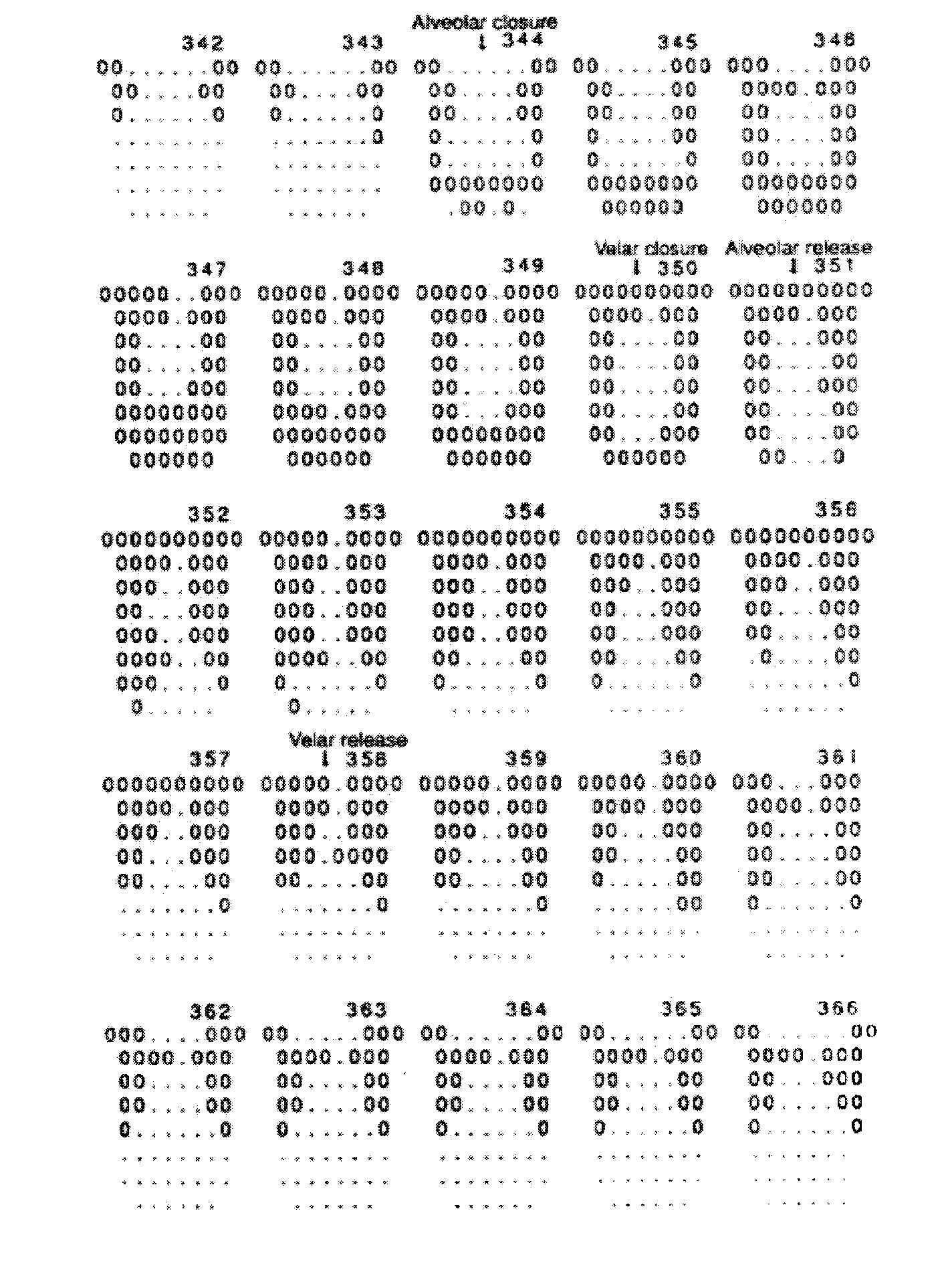 Printout from the Reading electropalatography system showing articulation of the word 'catkin'